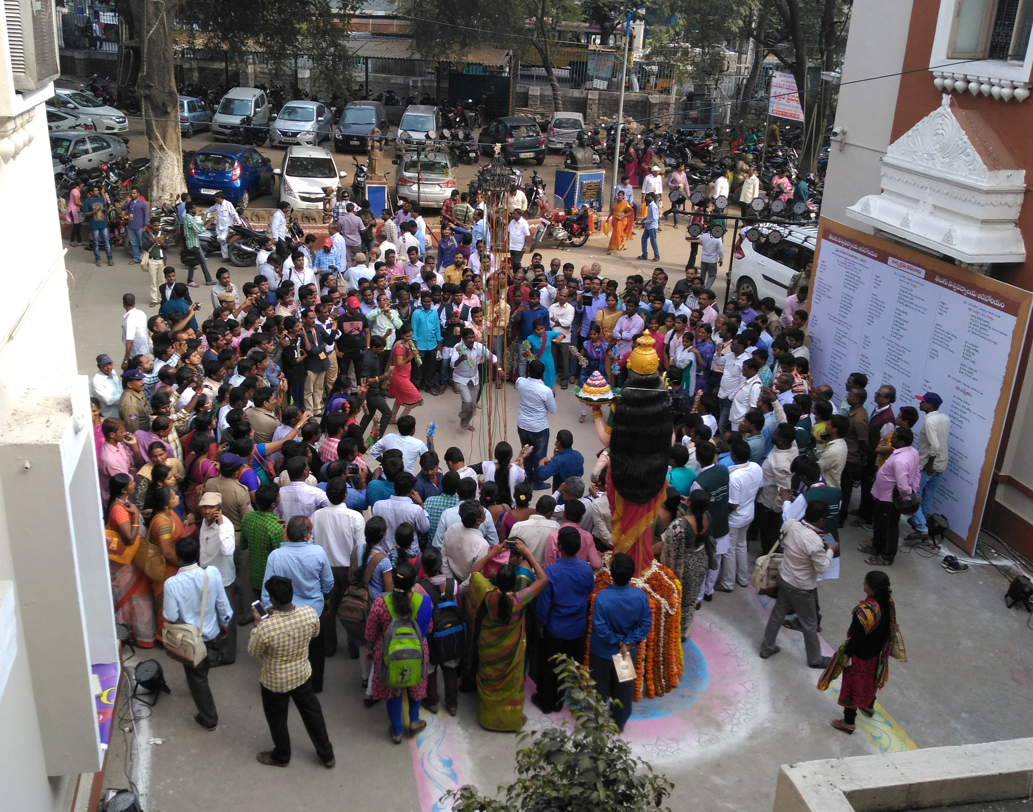 తెలుగు ప్రపంచ మహాసభల వద్ద దృశ్యాలు,వ్యక్తులు,సమావేశాలు